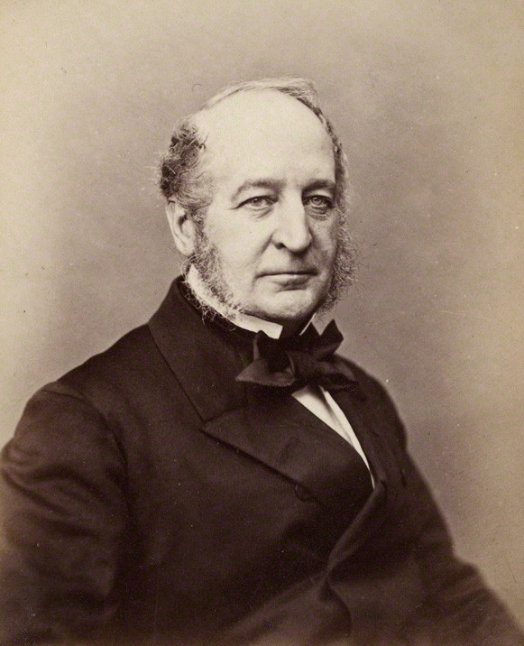 Portrait of Spencer Horatio Walpole